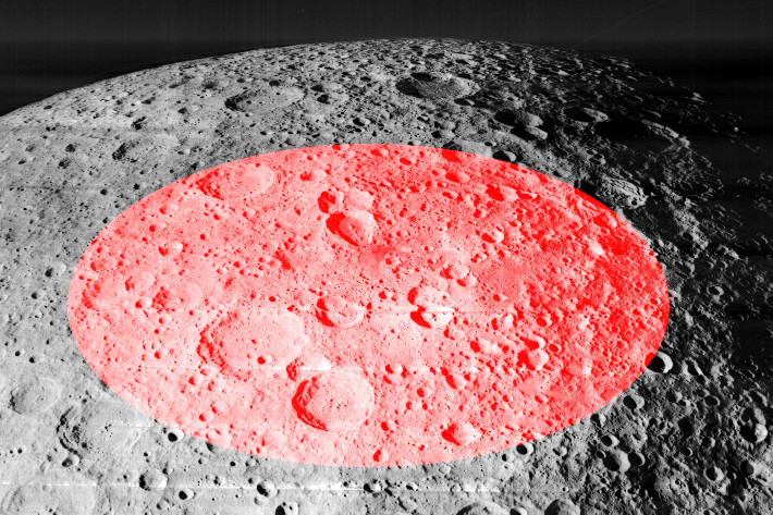 Oblique view of Freundlich-Sharonov Basin, on the far side of the moon, facing north. The basin is in the red highlighted area.